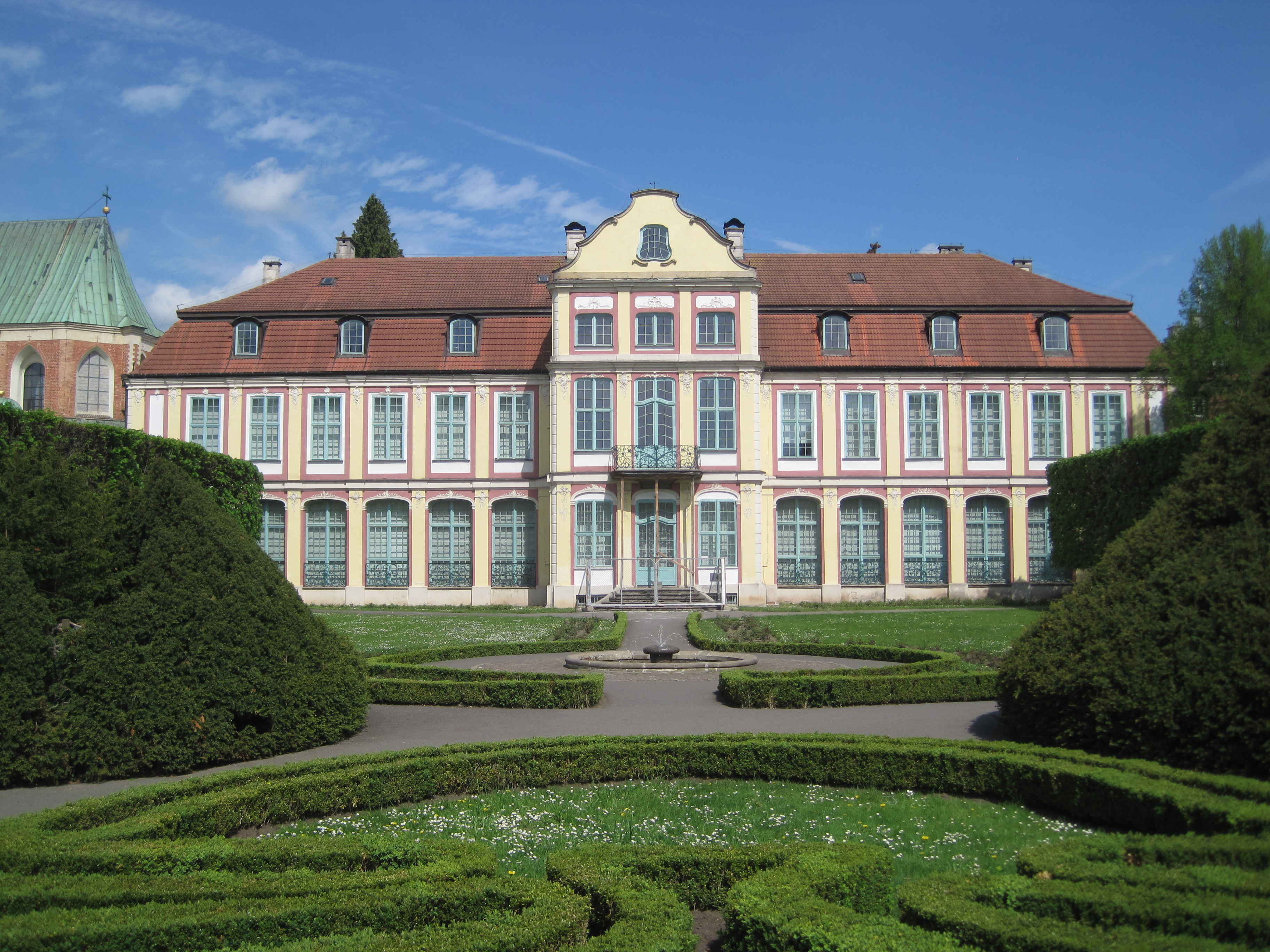 Oliwa Palace in Gdańsk